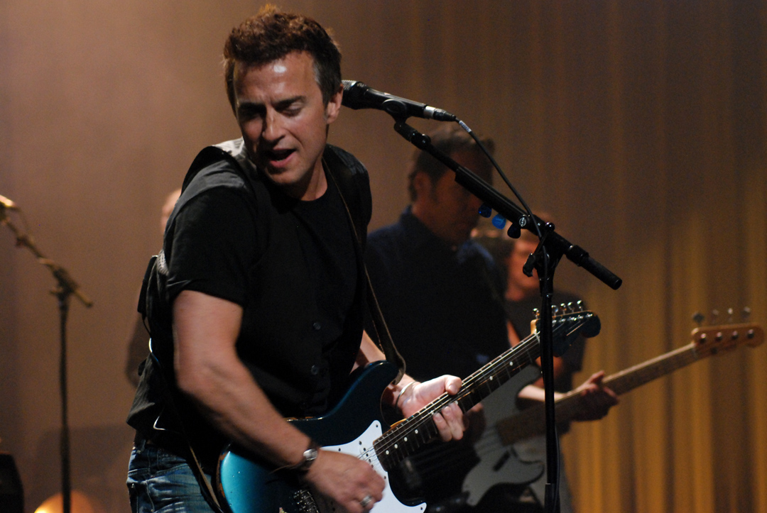 Canadian musician Colin James, performing live onstage at the CBC